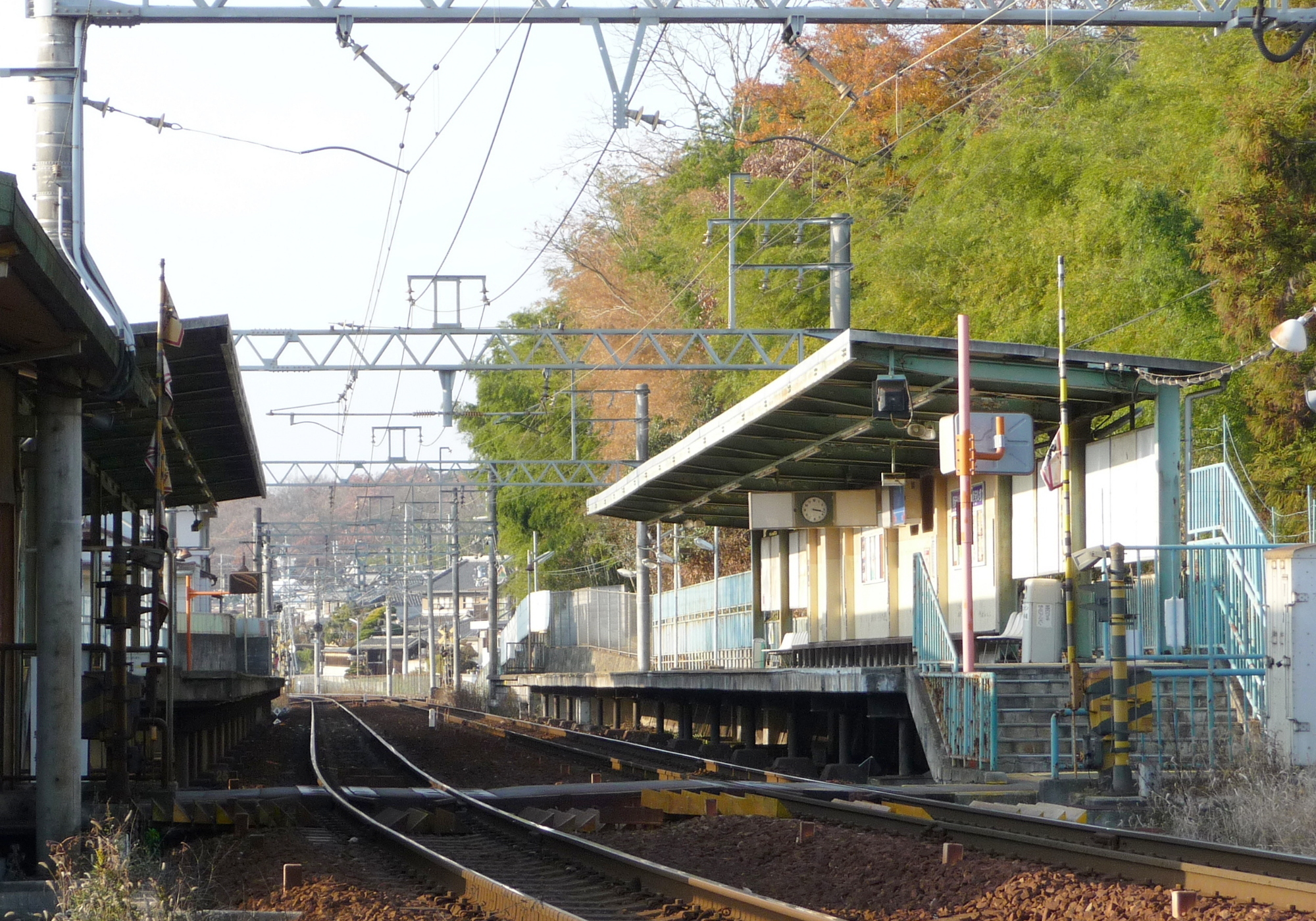 Kobe Electric Railway Kobata Staion platform